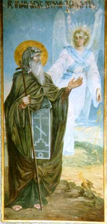 St. Shio Mgvimeli, a late 19th-century fresco from Shio-Mgvime Monastery